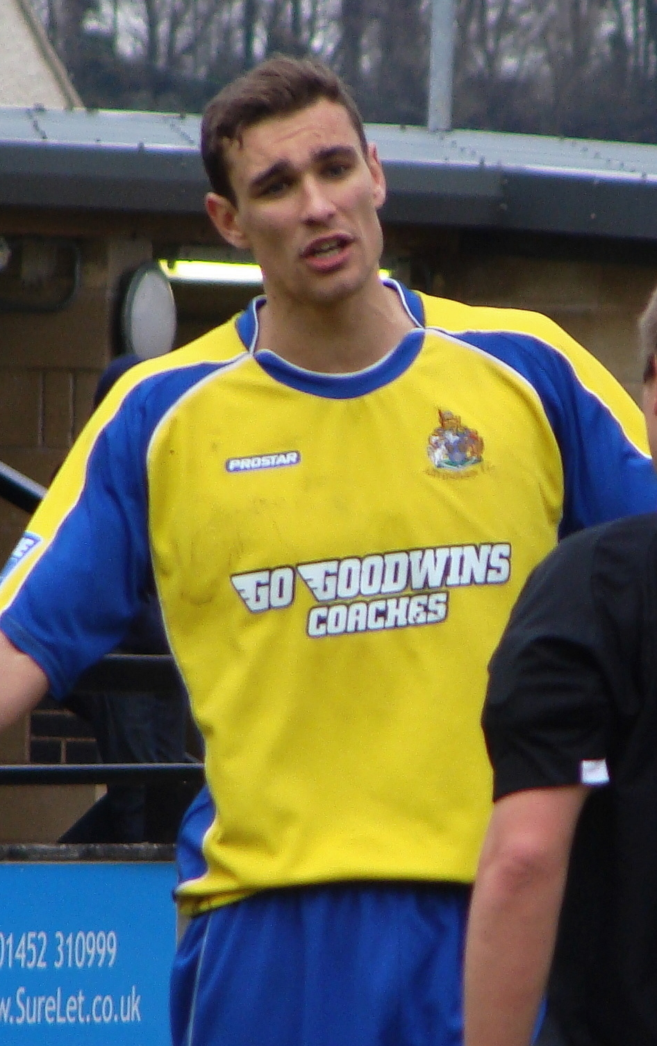 Greg Young playing for Forest Green Rovers against Altrincham at The New Lawn, Nailsworth on 27 March 2010